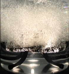 Fine bubble aeration at work. The most efficient oxygen transfer of all aeration techniques.